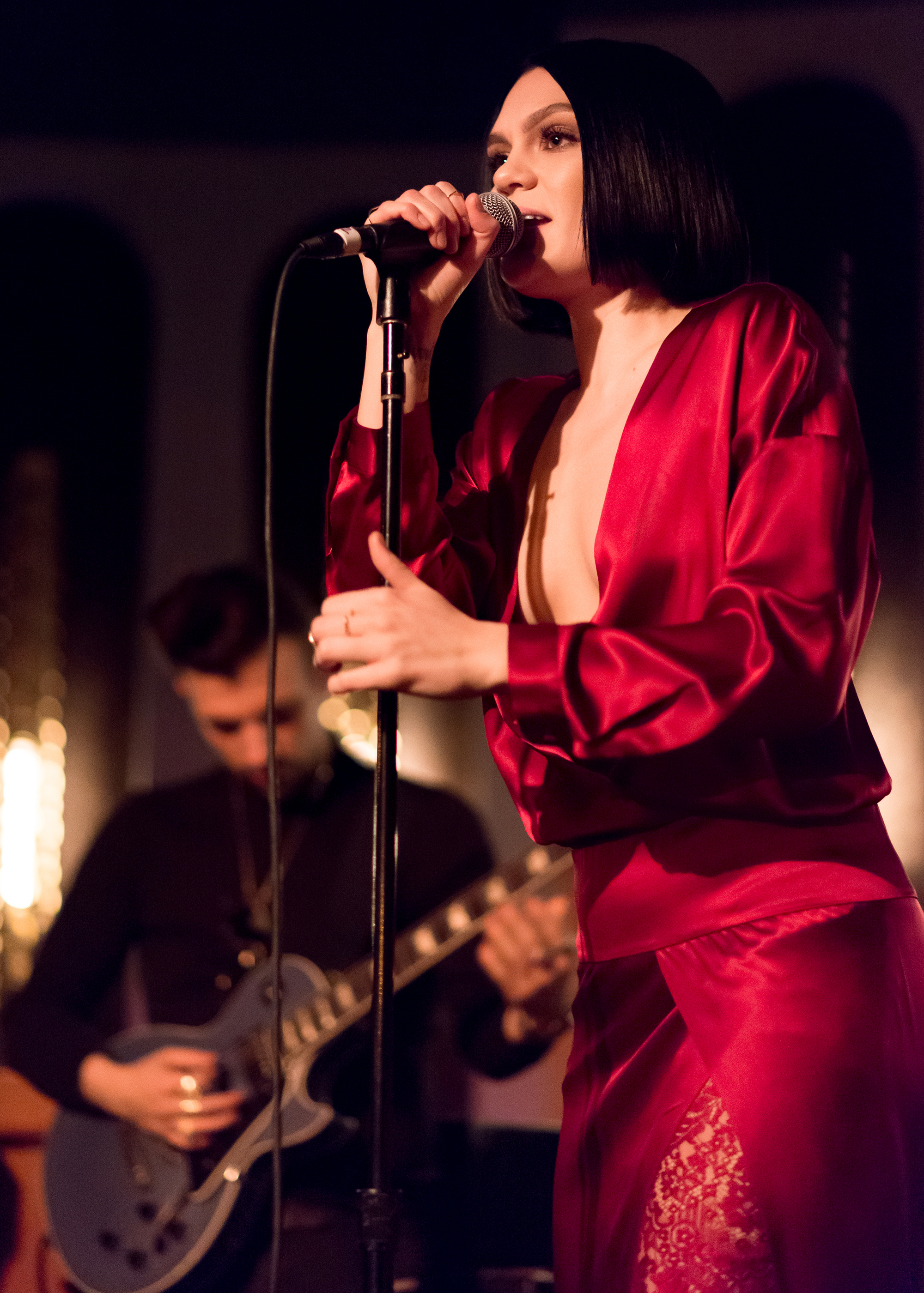 Jessie J performing live at The Peppermint Club in Los Angeles, California, on Sunday, December 17, 2017.